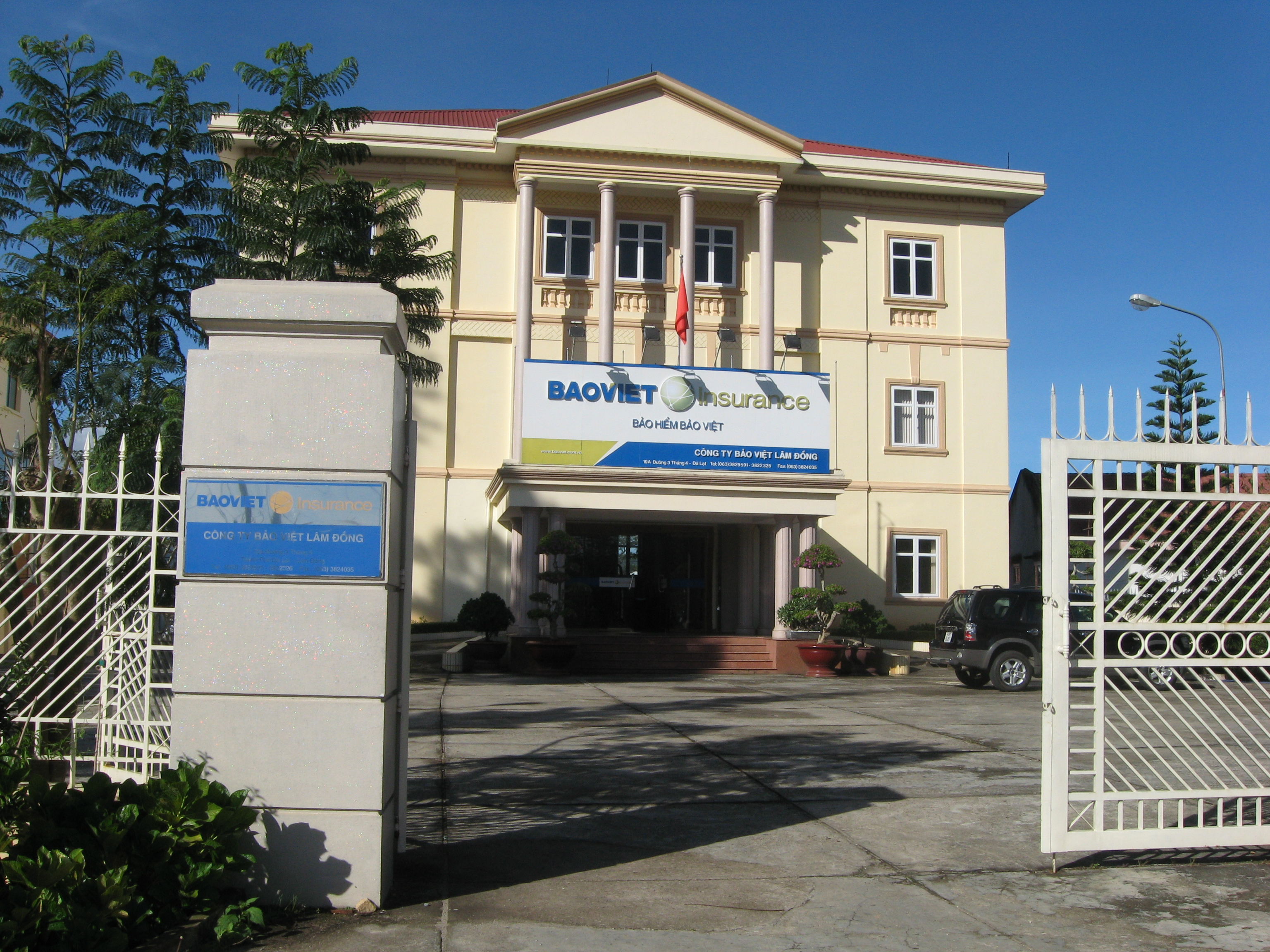 Bao Viet Lam Dong